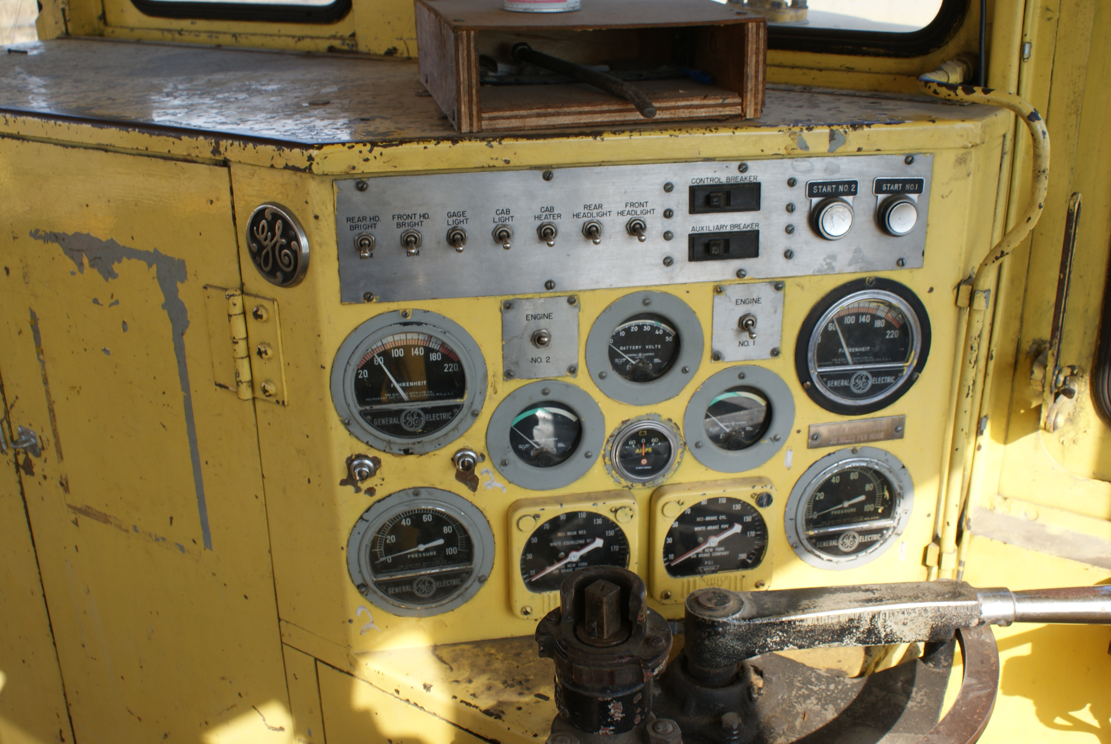 Gauges of locomotive at the Saskatchewan Railway Museum